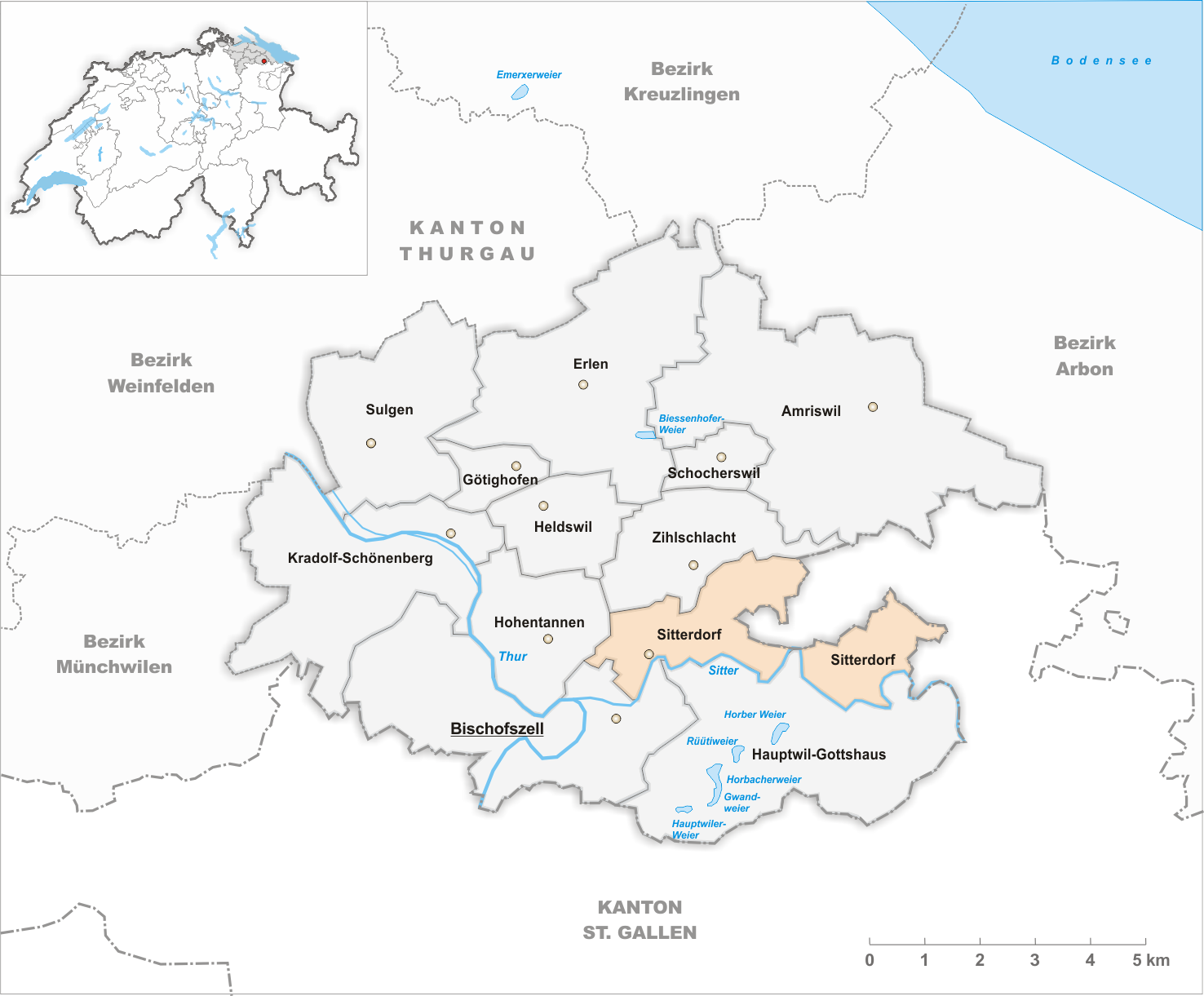 Municipality Sitterdorf